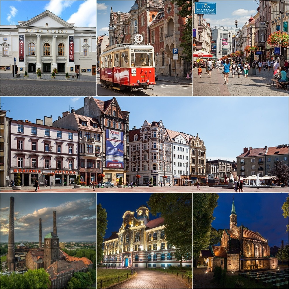 Bytom collage